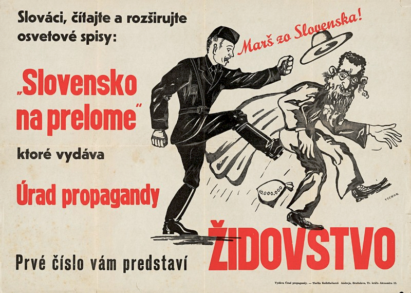 Antisemitic propaganda with the title "Marš zo Slovenska!", Slovak state, 1941-1942. Published by the Propaganda Ministry. “ "Get out of Slovakia!"Slovaks, read and disseminate the educational publication "Slovakia in Transition" issued by the Propaganda Bureau.The first issue will introduce you to JEWRY. ”